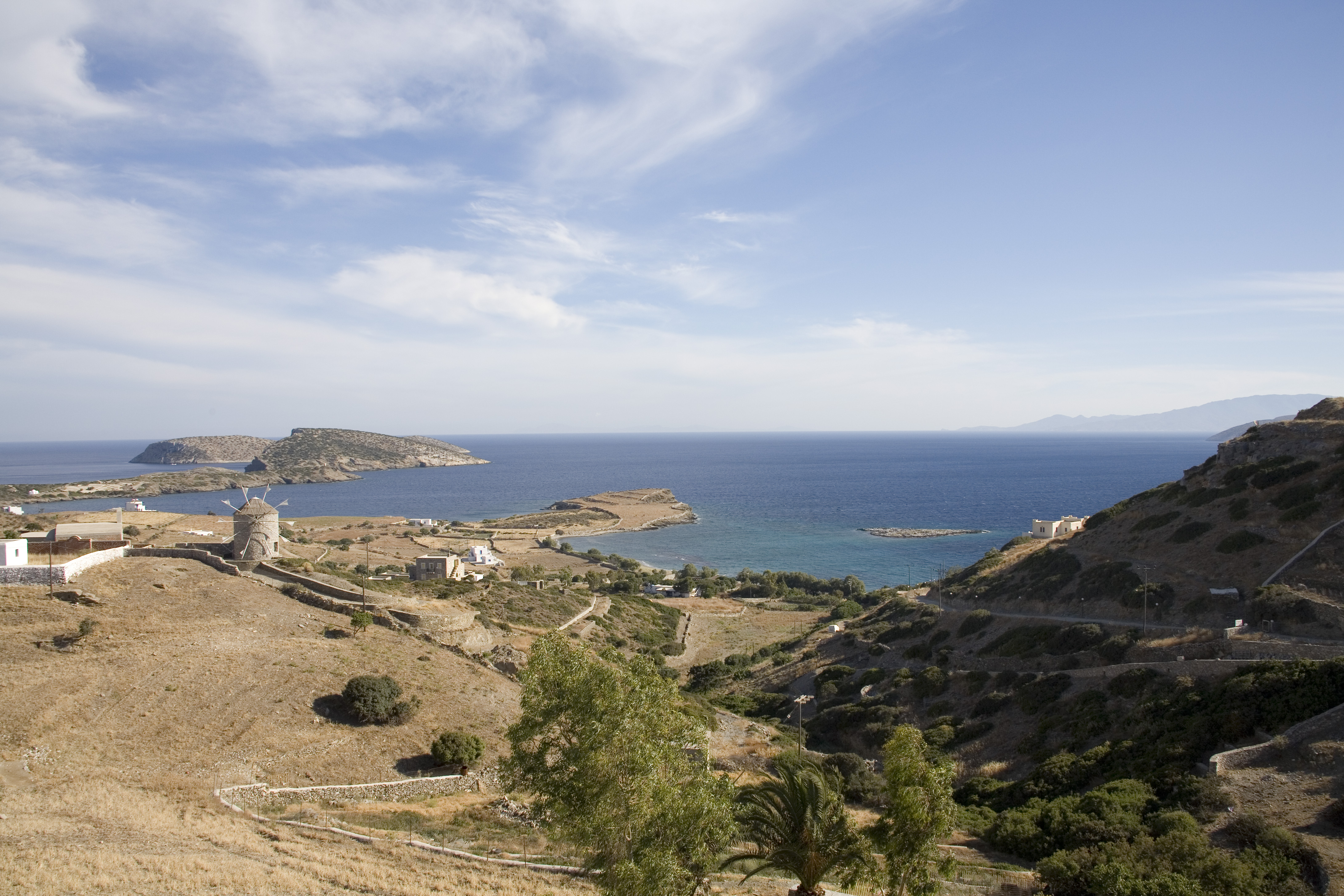 View of Schinousa from the sea, in the centre the harbour of the island